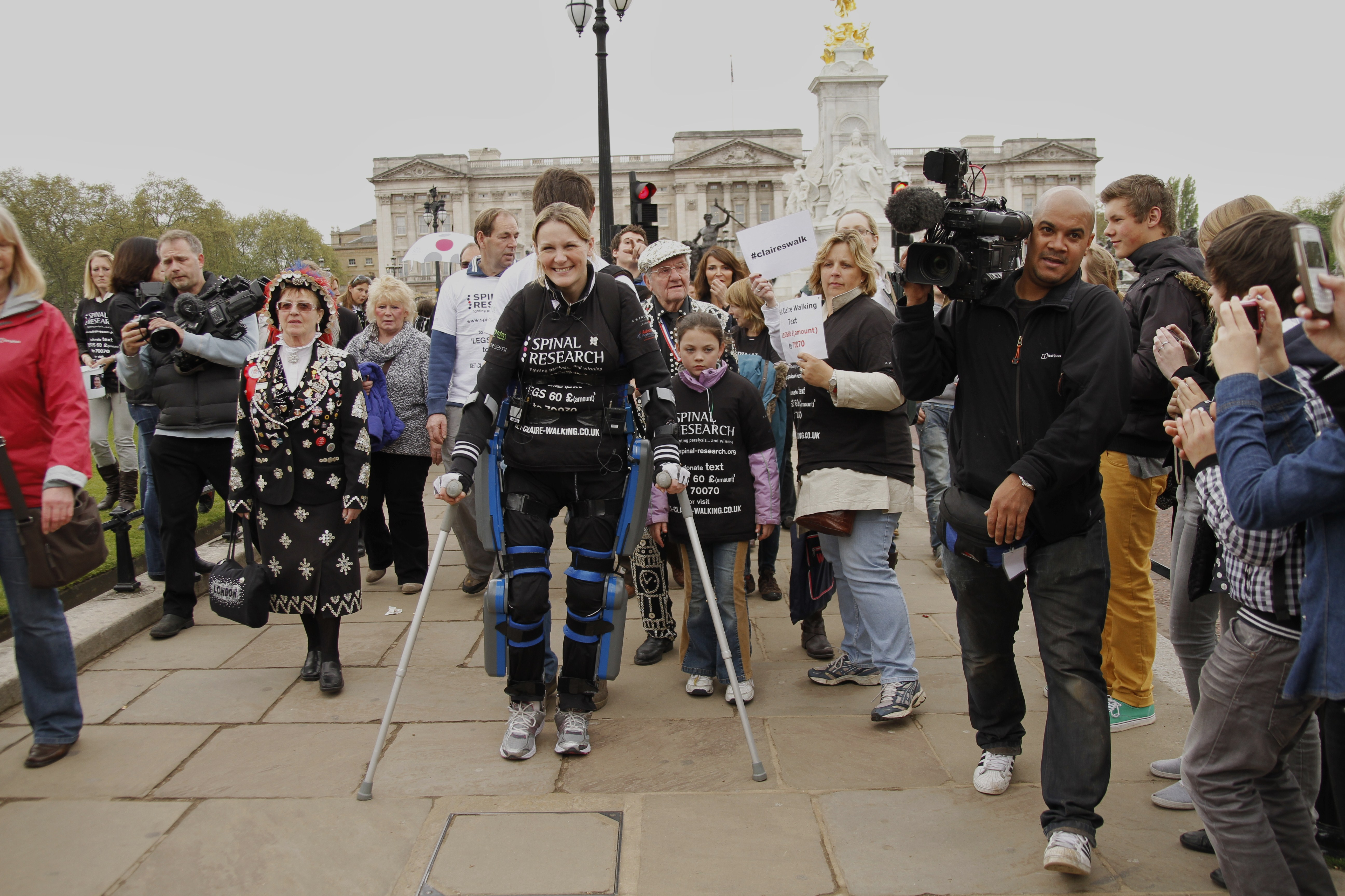 Claire Lomas walking the 2012 Virgin London Marathon during April 16 - May 8, 2012.